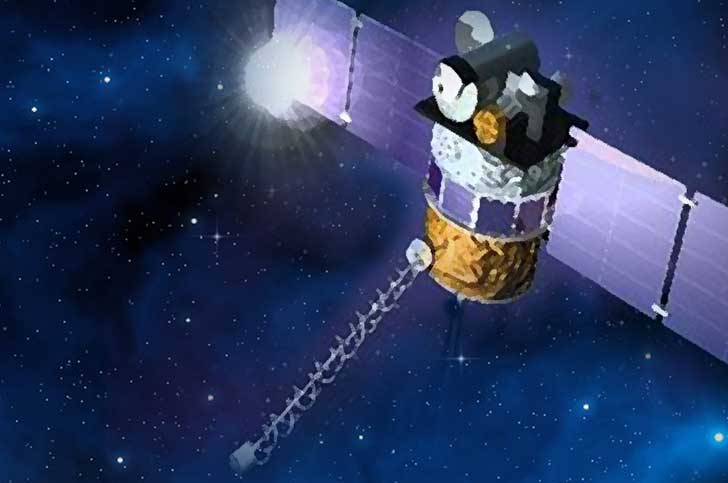 The Deep Space Climate Observatory (DSCOVR) Project addresses the National Oceanic and Atmospheric Administration's (NOAA) space weather environmental monitoring objectives by providing measurements of the solar wind magnetic field, and the solar wind plasma ion temperature, velocity and density. NOAA has transferred funds to NASA for the refurbishment of DSCOVR and its solar wind sensors, with NASA acting as the refurbishment/acquisition agent on behalf of NOAA. DSCOVR also includes the NASA Science Mission Directorate funded Earth Science instruments that provide high-resolution whole earth multispectral imagery and earth radiometry data, and the Heliophysics Science sensor that provides measurements of the solar wind electron distribution.